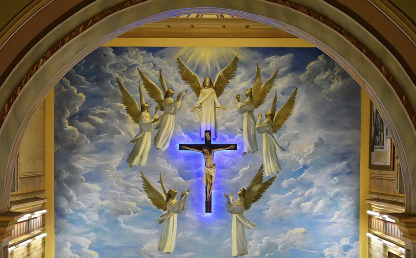 Details of the Painting of the Altar of the Cathedral of São Bento, in Marília/SP/Brazil